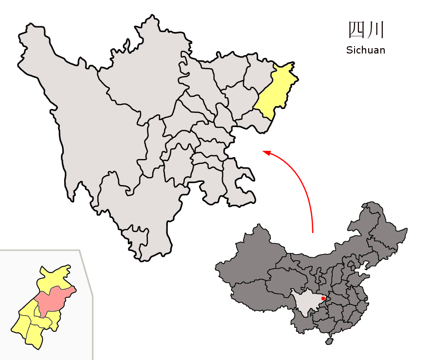 Location of Xuanhan County (pink) and Dazhou Prefecture (yellow) within Sichuan province of China Map drawn in october 2007 using various sources, mainly : Sichuan province administrative regions GIS data: 1:1M, County level, 1990 Sichuan Counties map from